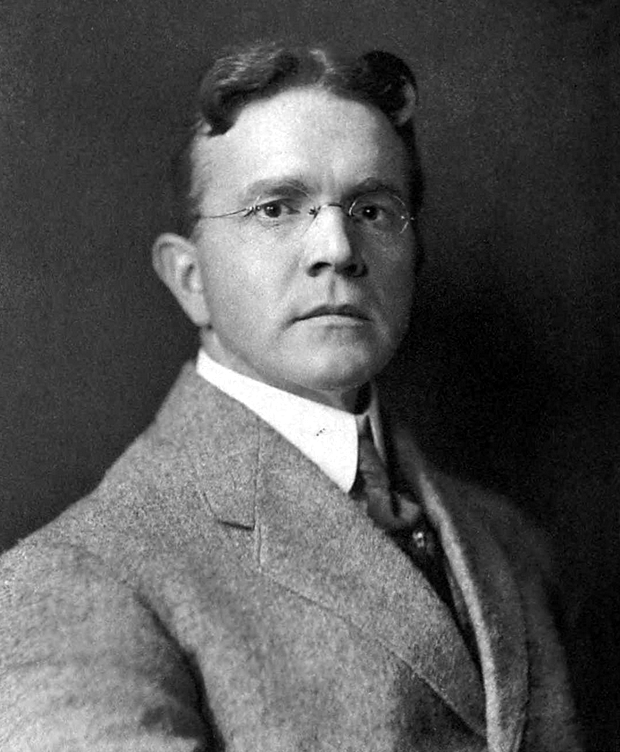 Photograph of Henry Moore Bates